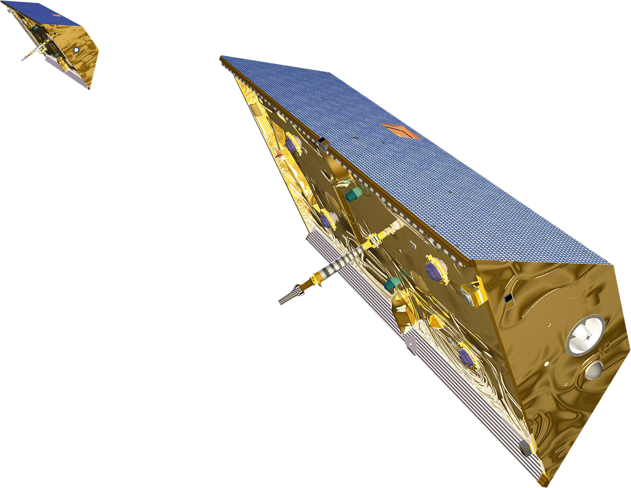 Artist's concept of the Gravity Recovery and Climate Experiment spacecraft.